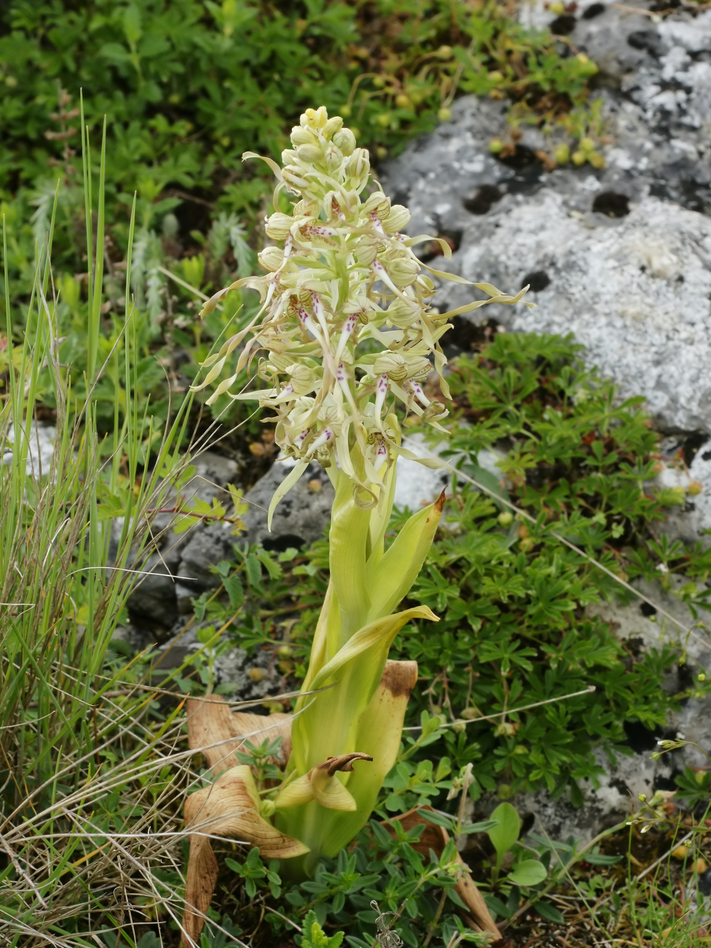 Lizard orchid flowers.